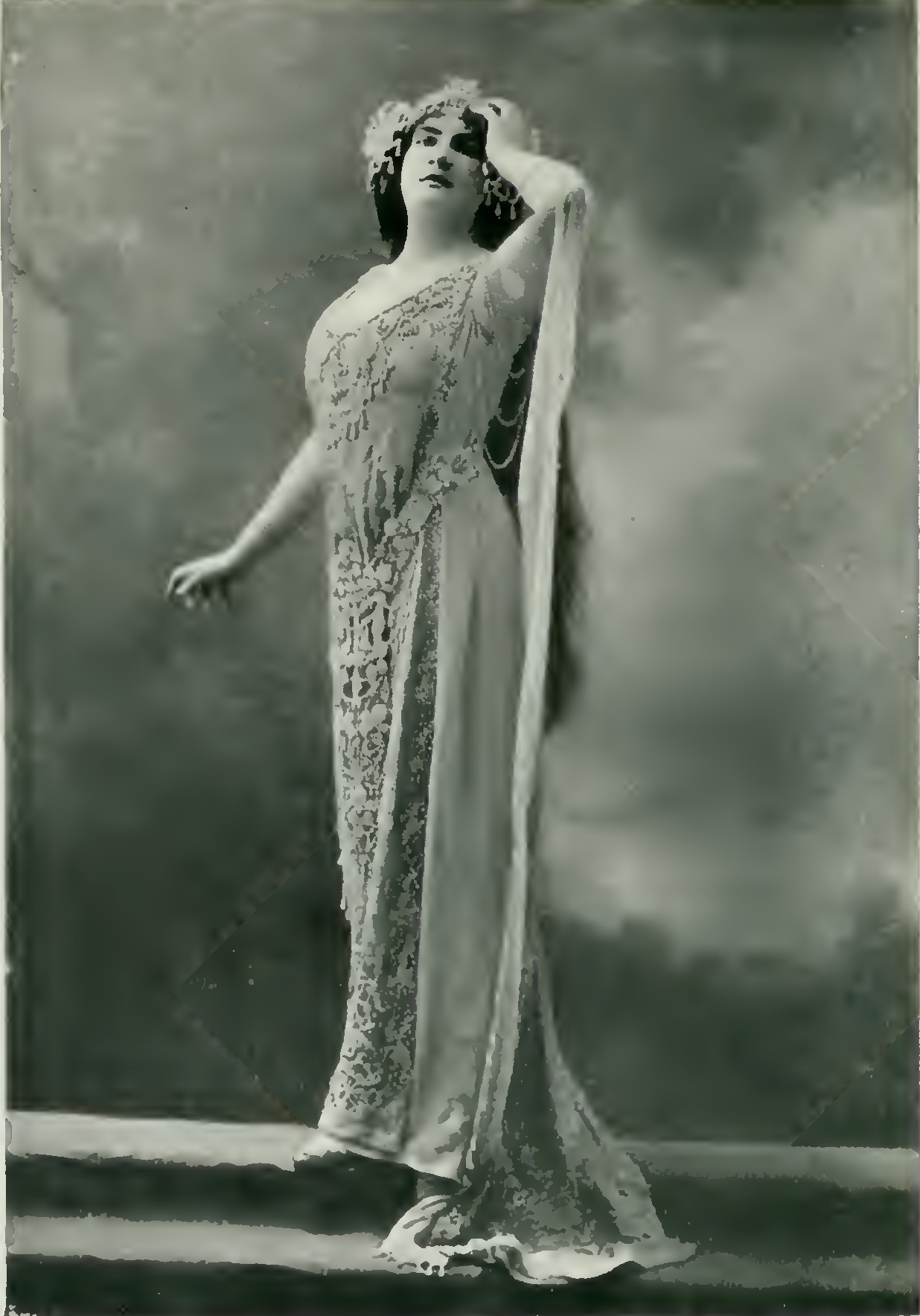 book illustration